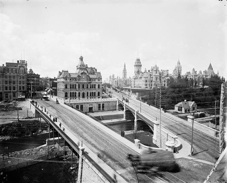 Ottawa Post Office, Sappers Bridge and Dufferin Bridge in Ottawa, Ontario, Canada.